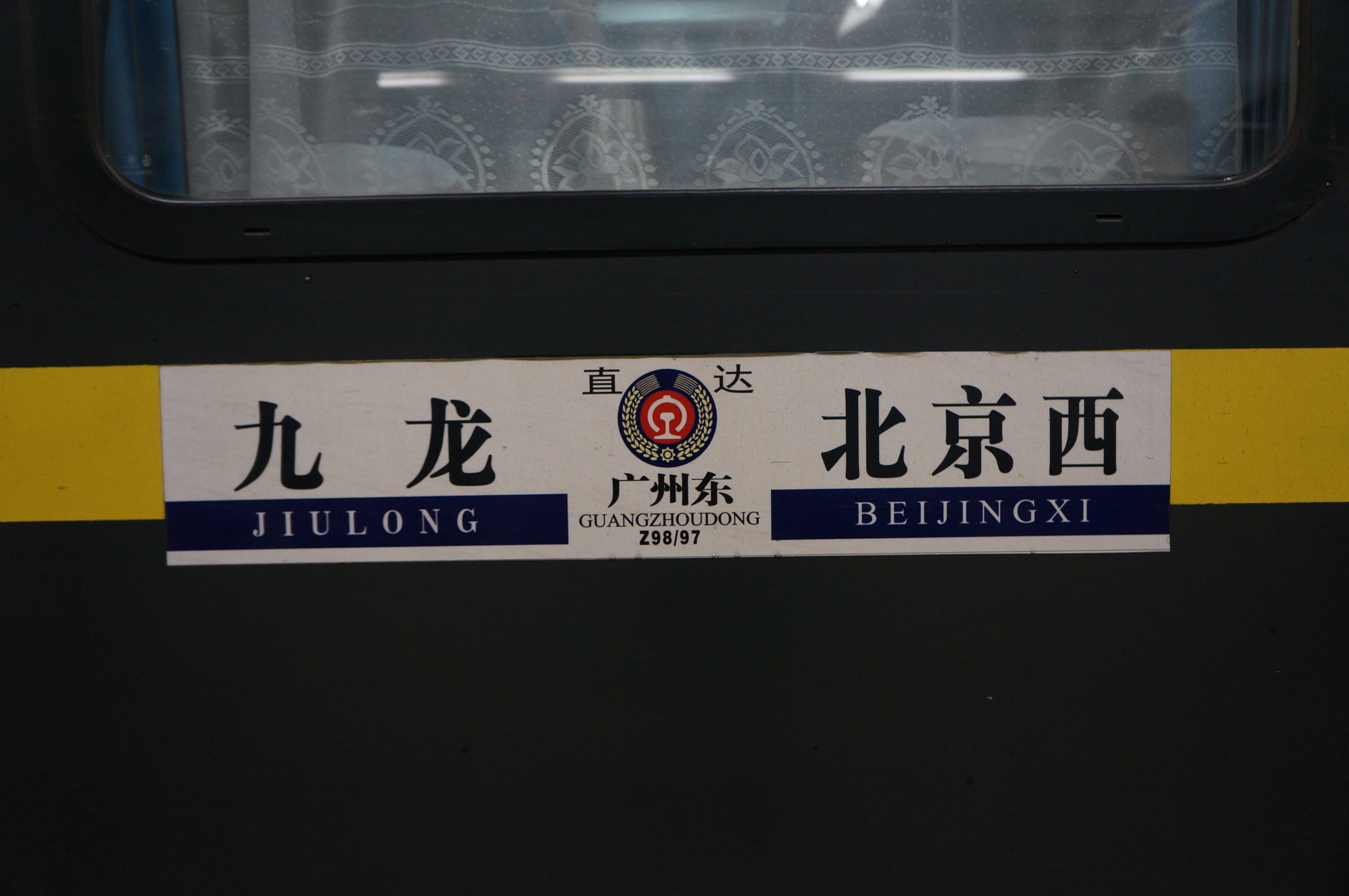 Z97 98 board in 201609